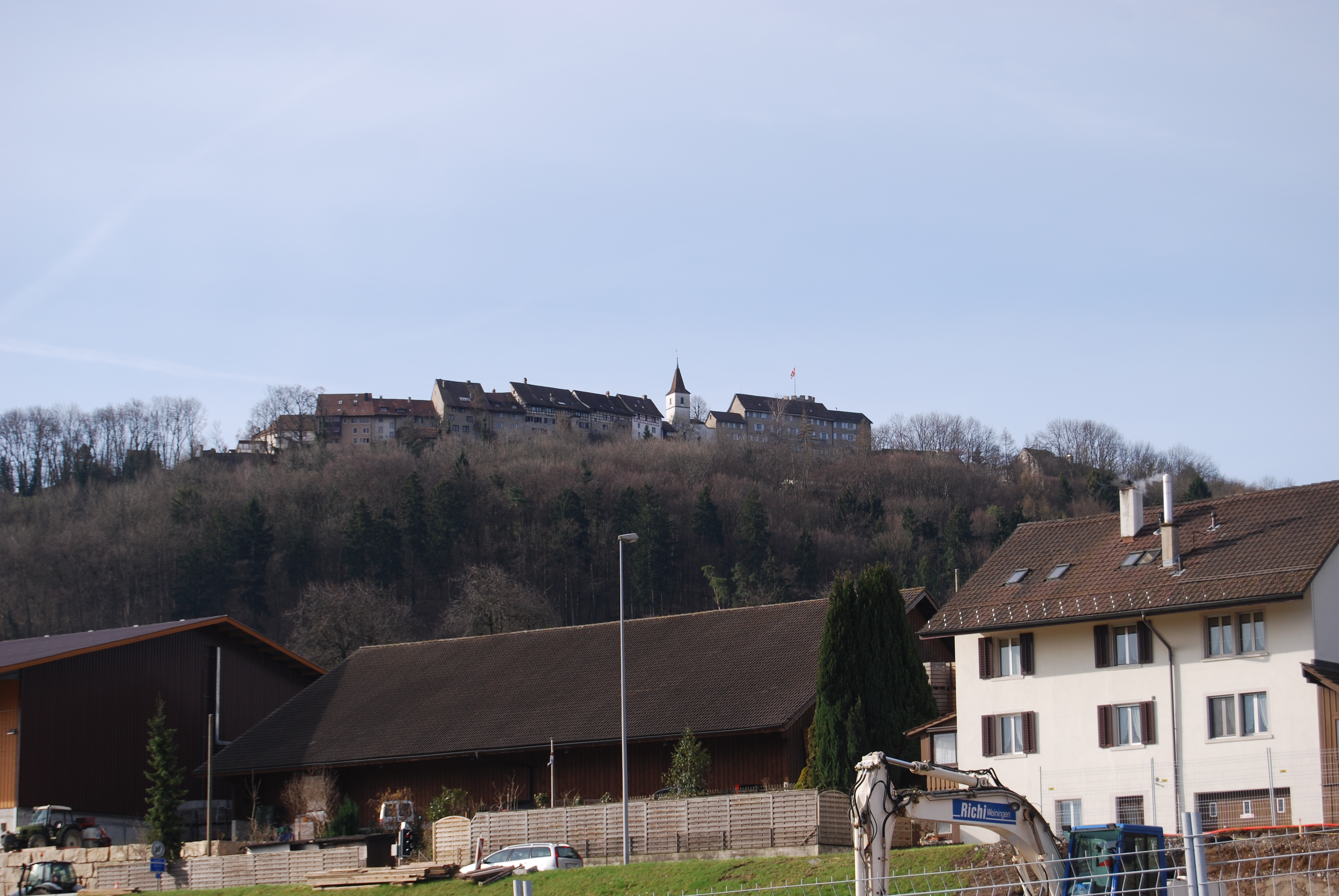 Sünikon - view to Regensberg, municipality Steinmaur, canton of Zürich, SwitzerlandEsperanto: Sünikon - rigardo al Regensberg, komunumo Steinmaur, Kantono Zuriko, Svislando